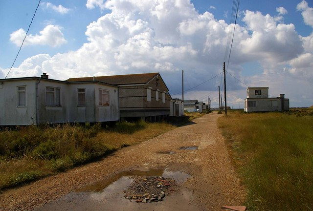 Lee-over-Sands. If it is peace and quiet you are after these chalets are about as isolated as you can get within a sixty mile radius of central London. It must be a constant battle with the elements to keep them maintained.